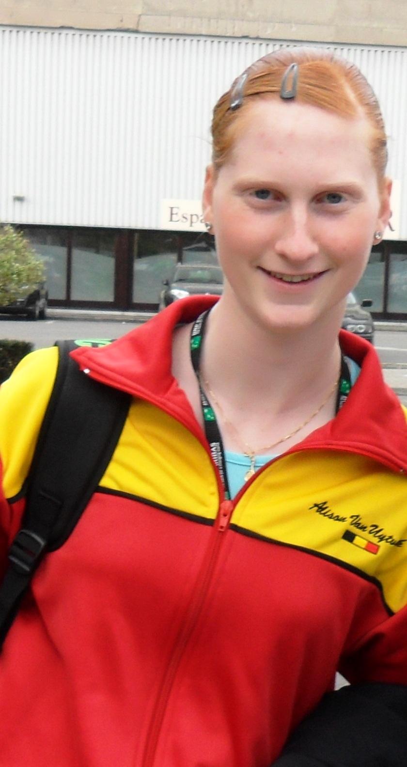 Alison Van Uytvanck at the 2011 Fed Cup Semifinals against Czech Republic in Charleroi, Belgium.